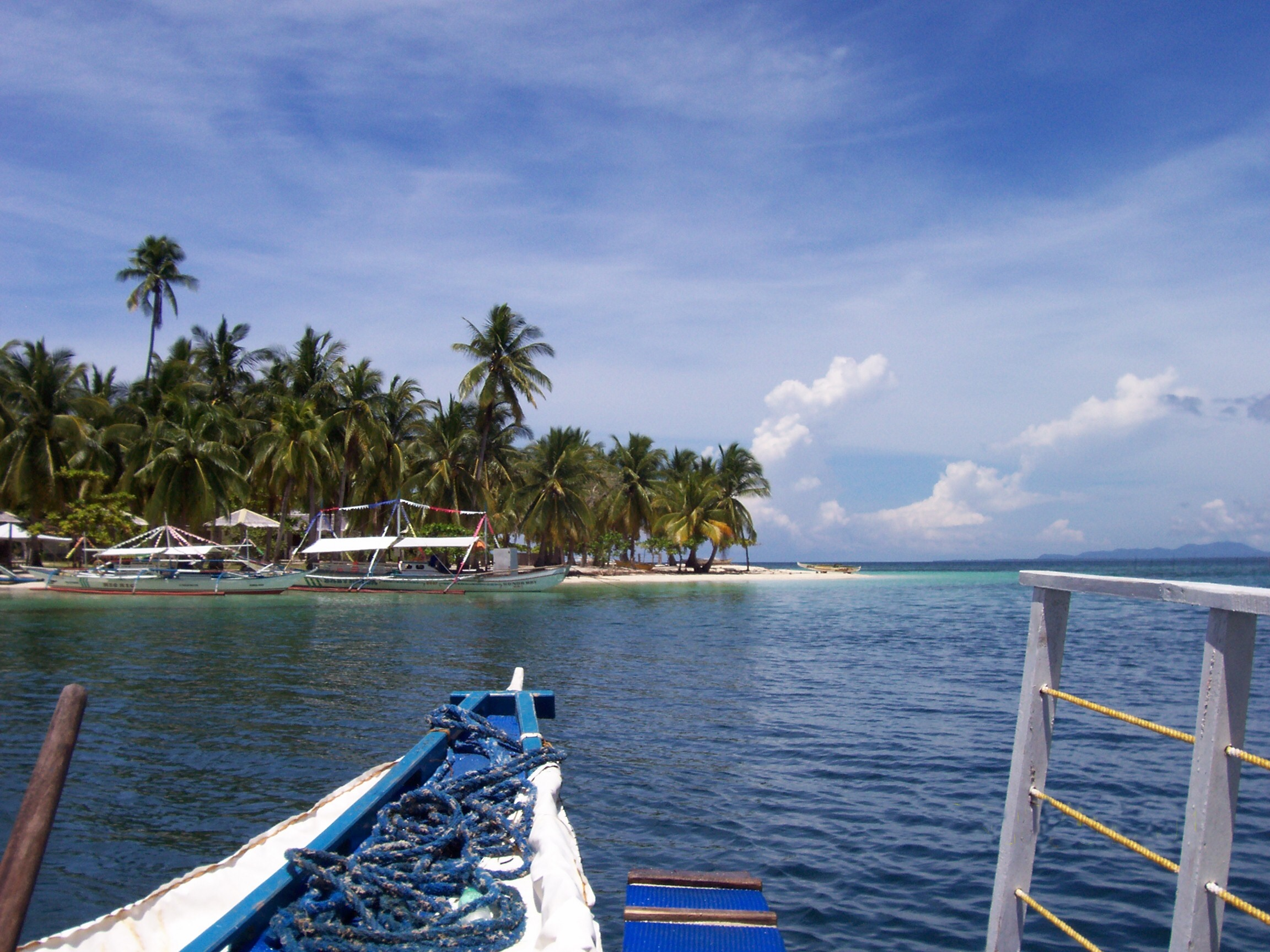 Honda Bay island hopping